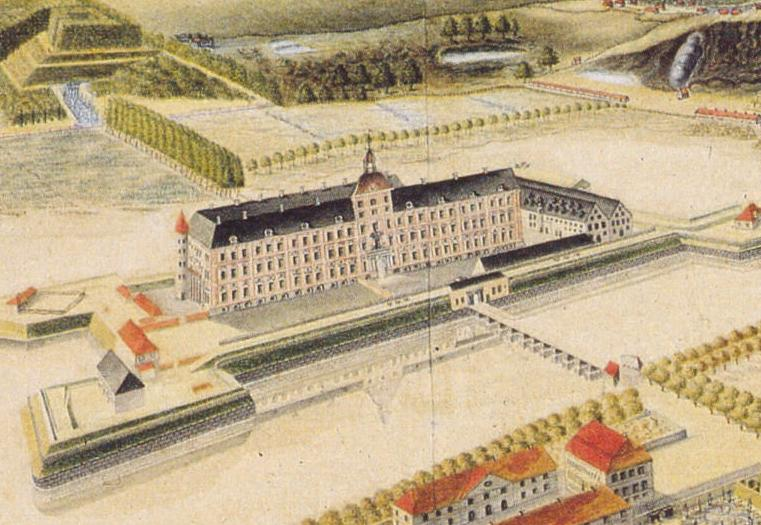 Part of "Plan von Gottorf und Schleswig", Map of Gottorf and Schleswig, painted in water colours